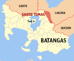 Map of Batangas showing the location of Santo Tomas